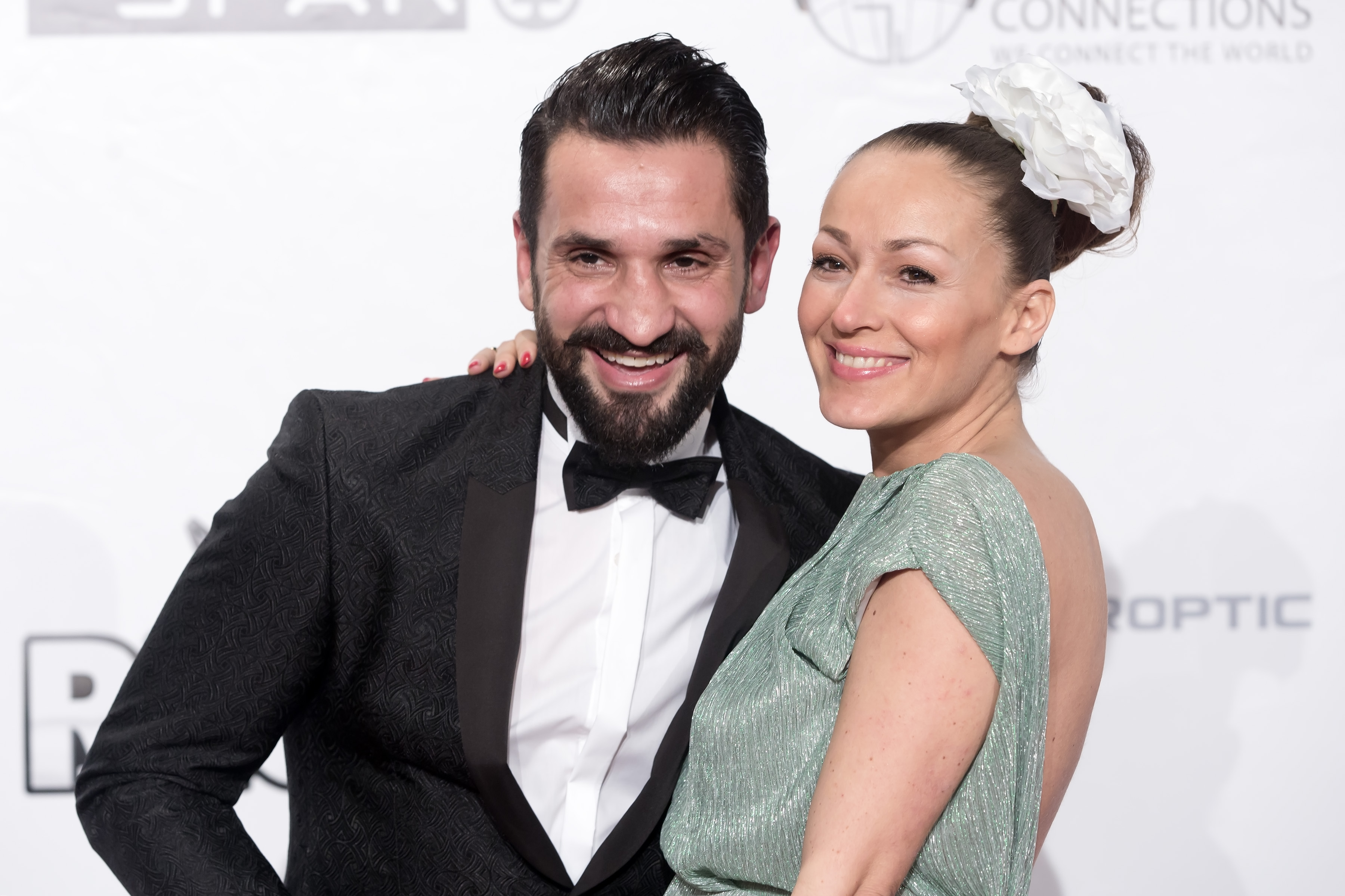 ines and Fadi Merza on the red carpet of the Filmball Vienna at Rathaus, Vienna, Austria.